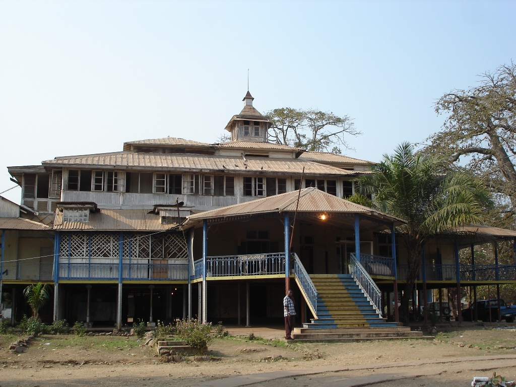 Former residence of the Governor-general of the Belgian Congo, in Boma (1908-1926). Photo: 2008.